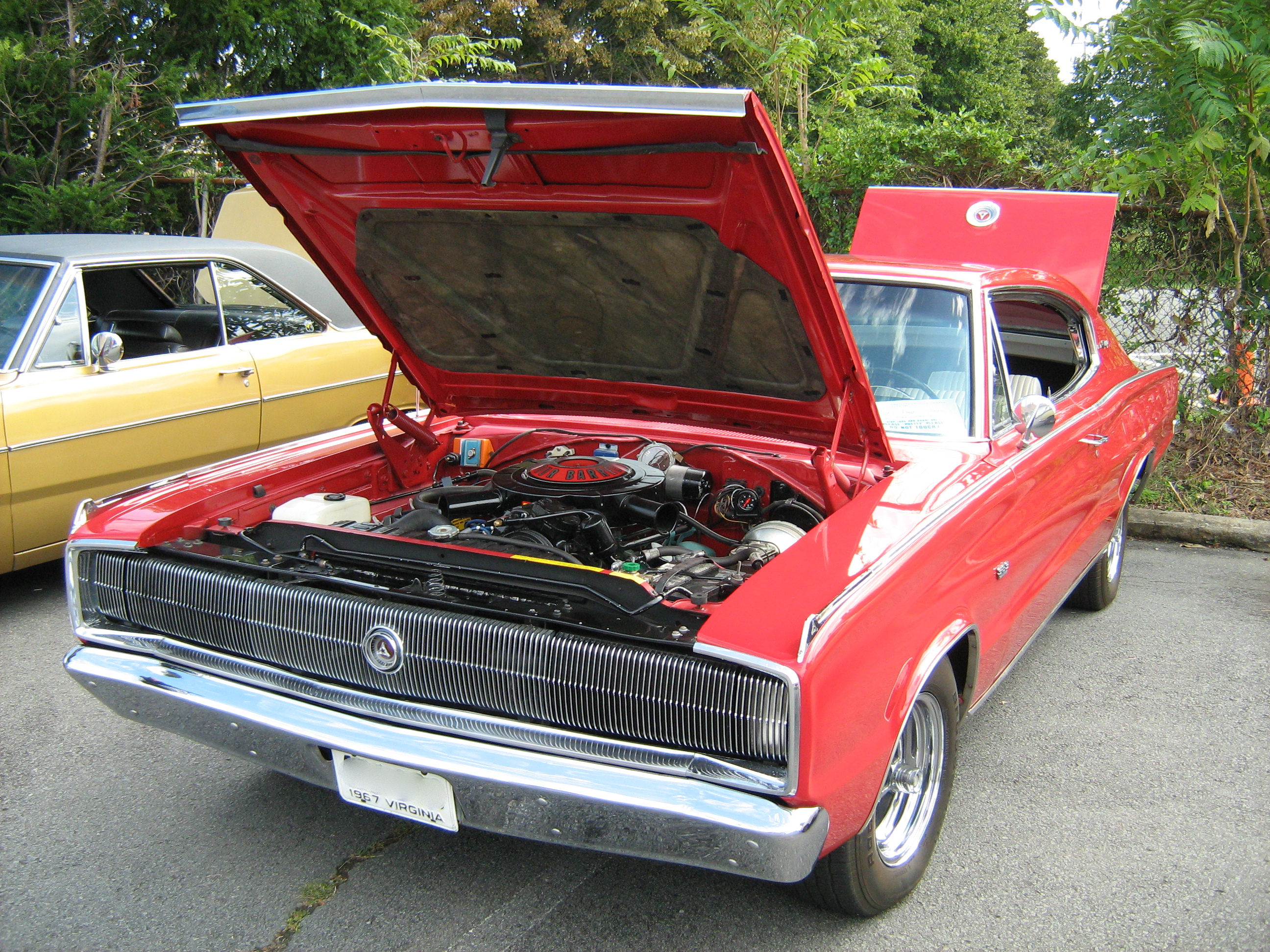 1967 Dodge Charger fastback front - with 383 CID V8 engine